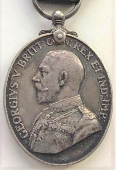 British long service medal awarded to the part-time Militia, version from 1911 to 1930